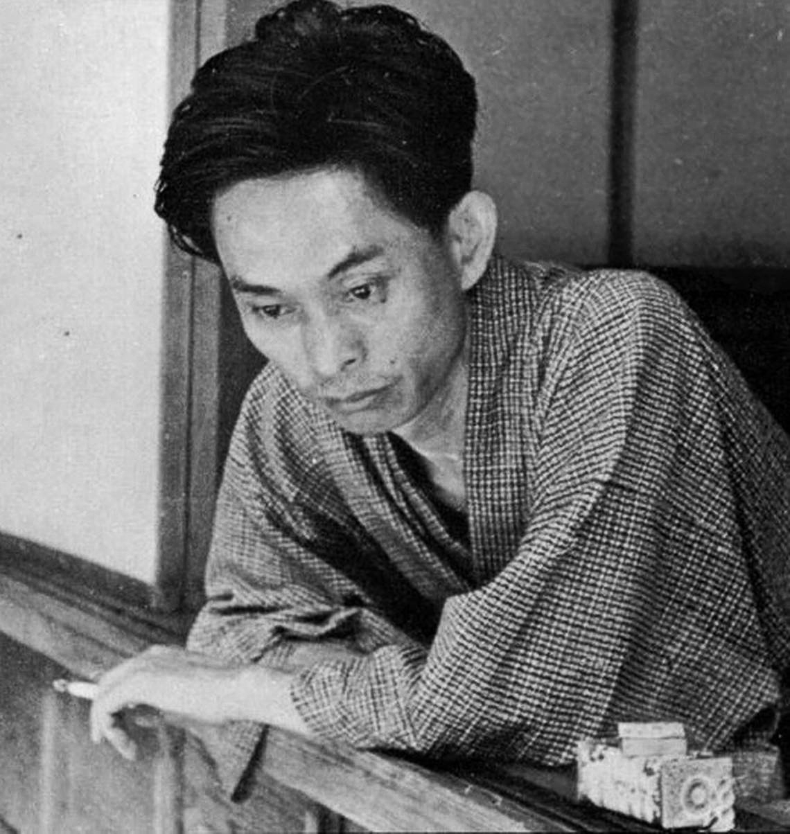 Yasunari Kawabata (born 14 June, 1899; died 16 April, 1972), pictured in a 1938 photograph, at his home in Kamakura